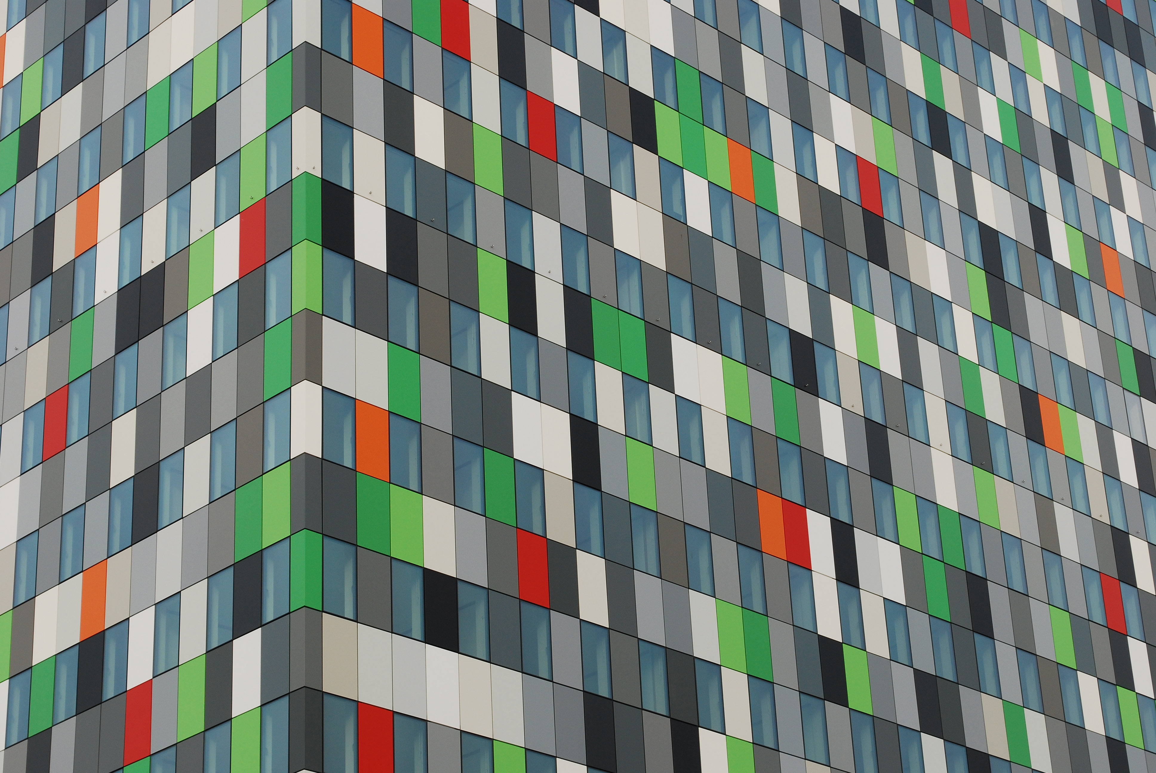 A close up of the new student housing Casa Confetti on the Uithof in Utrecht